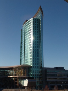 Image of SFU Surrey. Rob McTavish is the author.